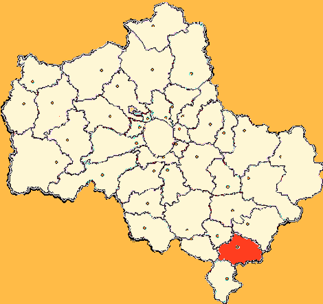 Moscow Region map by Al Silonov